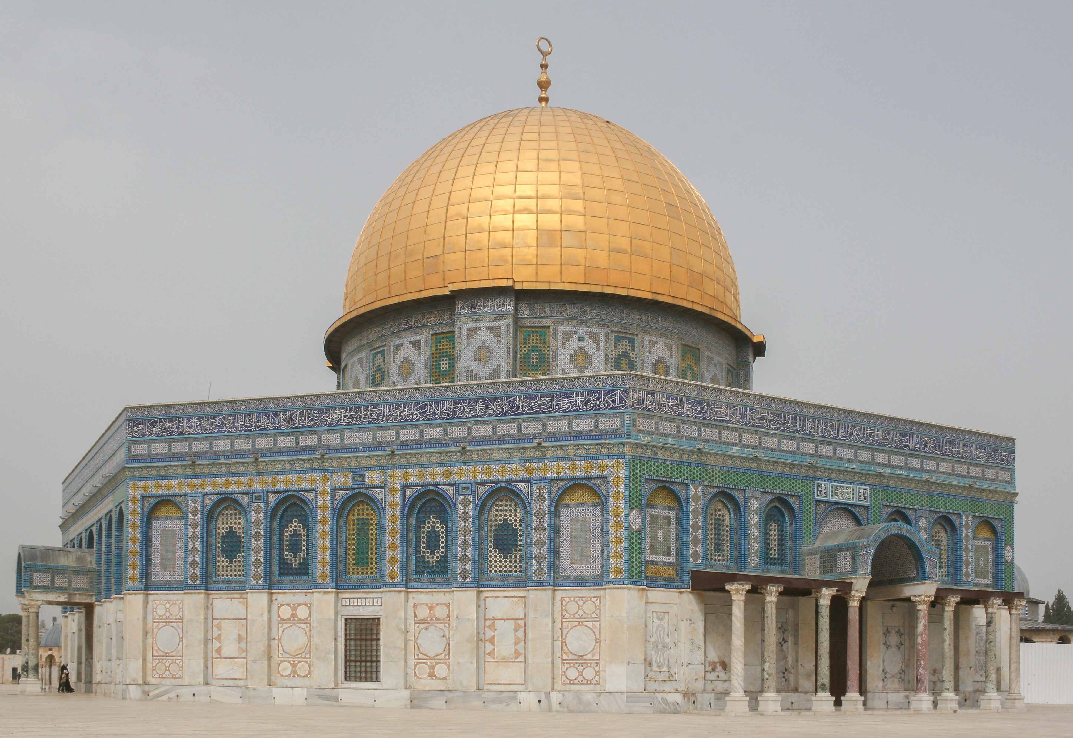 Exterior of the Dome of the Rock, Jerusalem